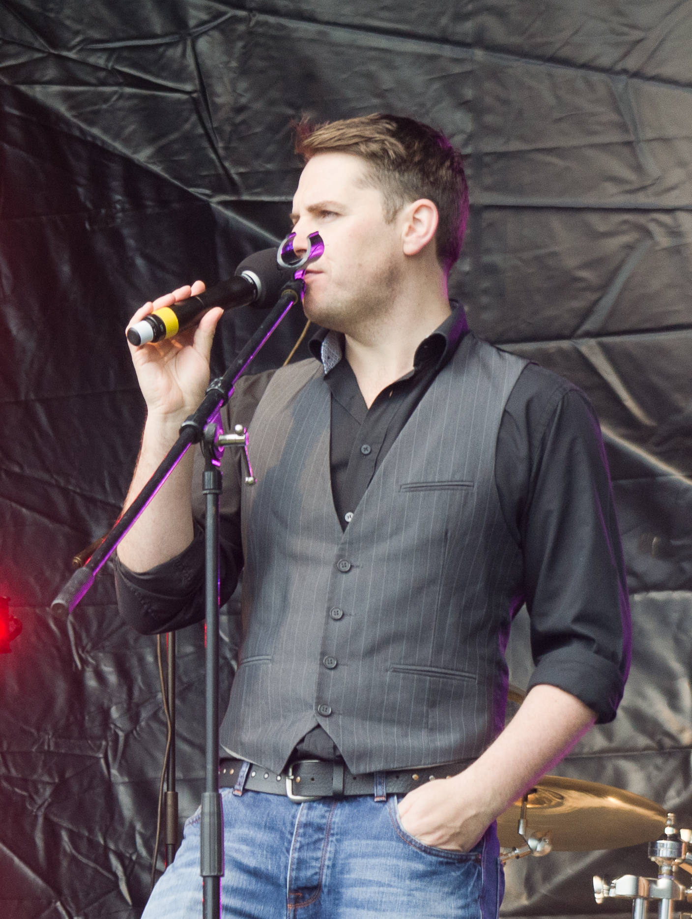 Brian Dunphy, performing at the Iveagh Gardens, Donegal during a High Kings concert in 2011.